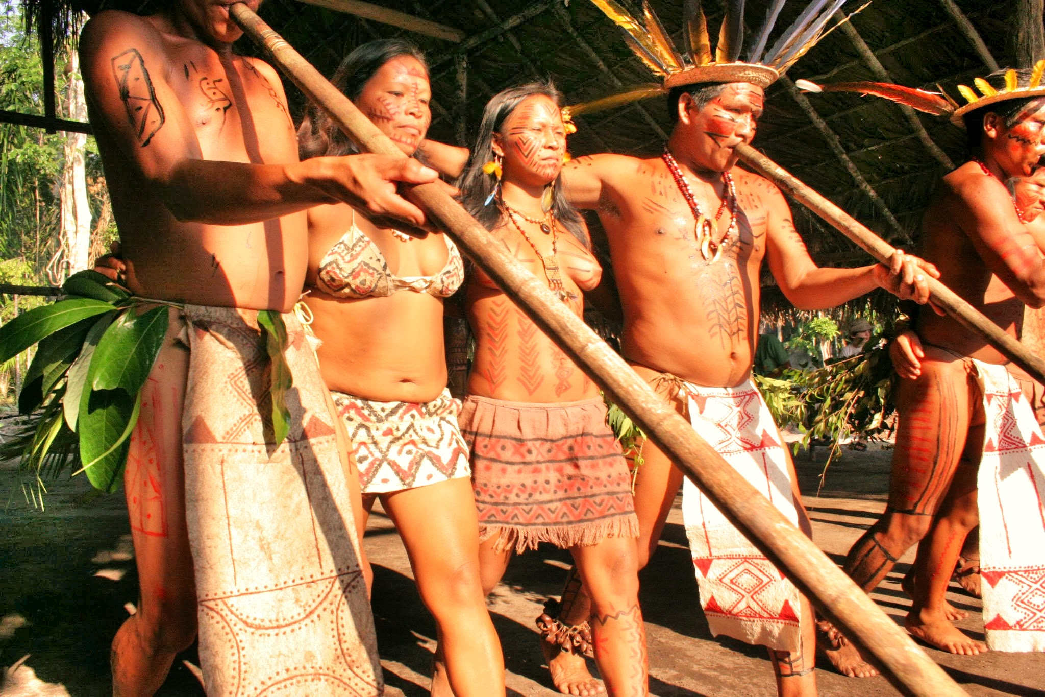 Welcome dance of Tukanos from Amazon rainforest.